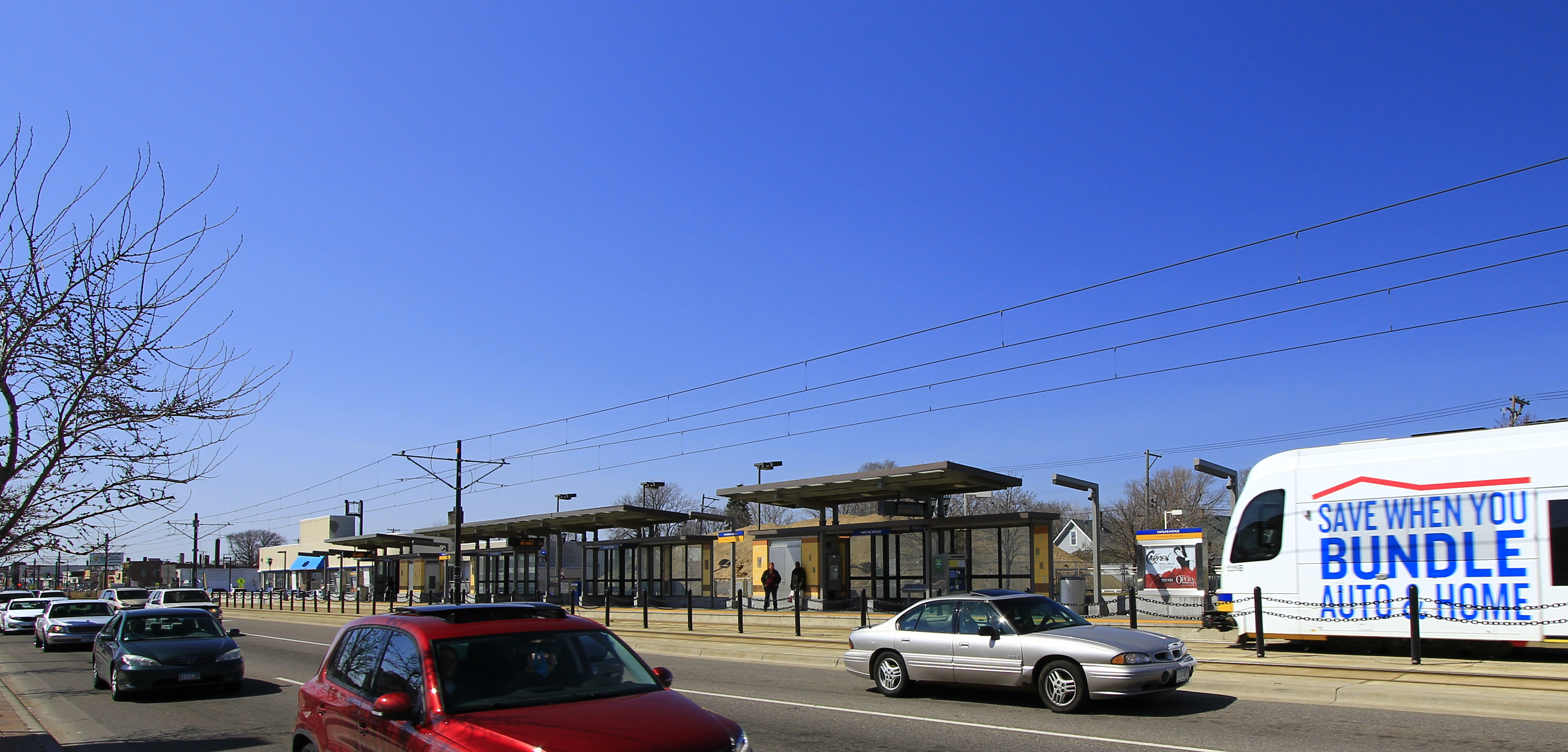 A Green Line train pulling into the westbound platform at Hamline Avenue station.